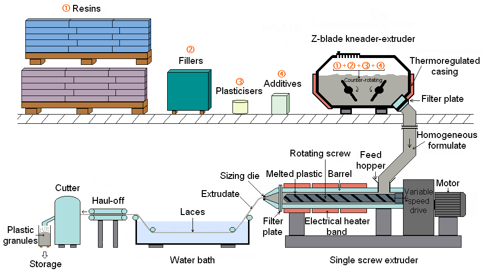 English version of File:Compounding.png.